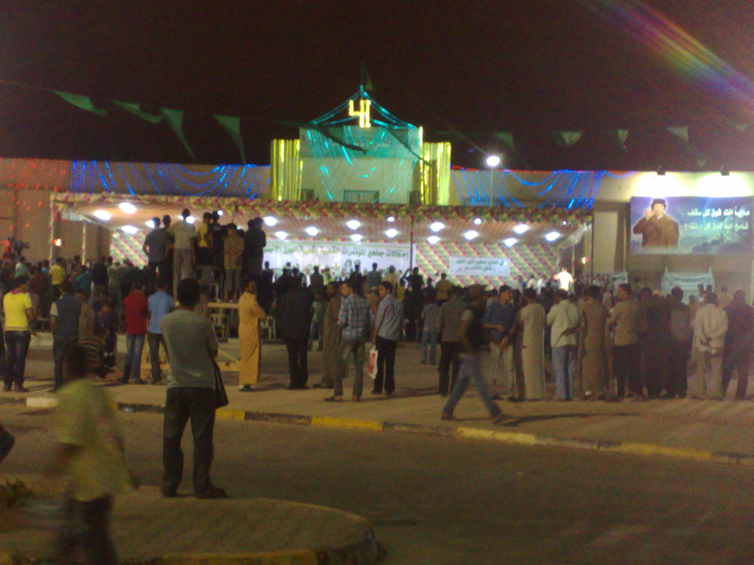 (Alfateh , 1 September 1969) Festivity Alfateh in Libya. City of Al Bayda in 01-09-2010.